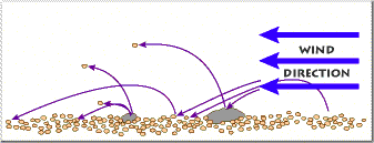 Diagram showing saltation process on sand dunes